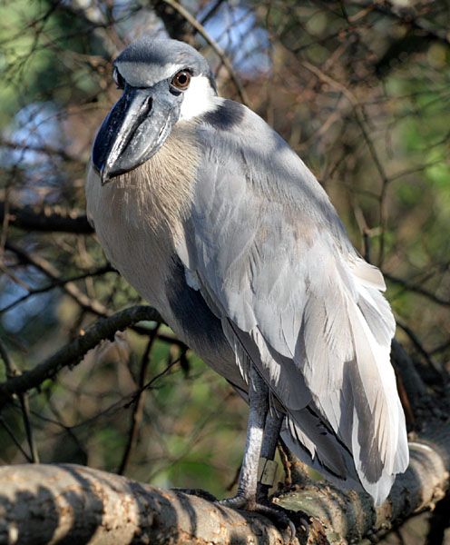 Boat-billed Heron, Cochlearius cochlearius. Location: Jacksonville Zoo, Jacksonville, Florida, United States.